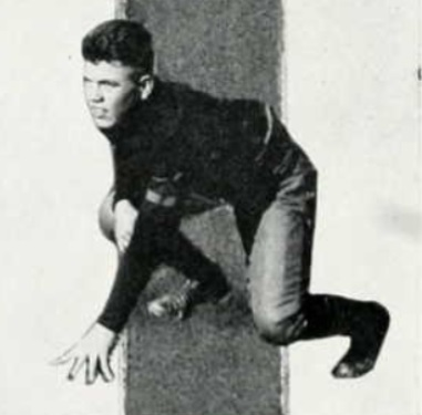 Vanderbilt tackle Frank "Pos" Elam circa 1921.